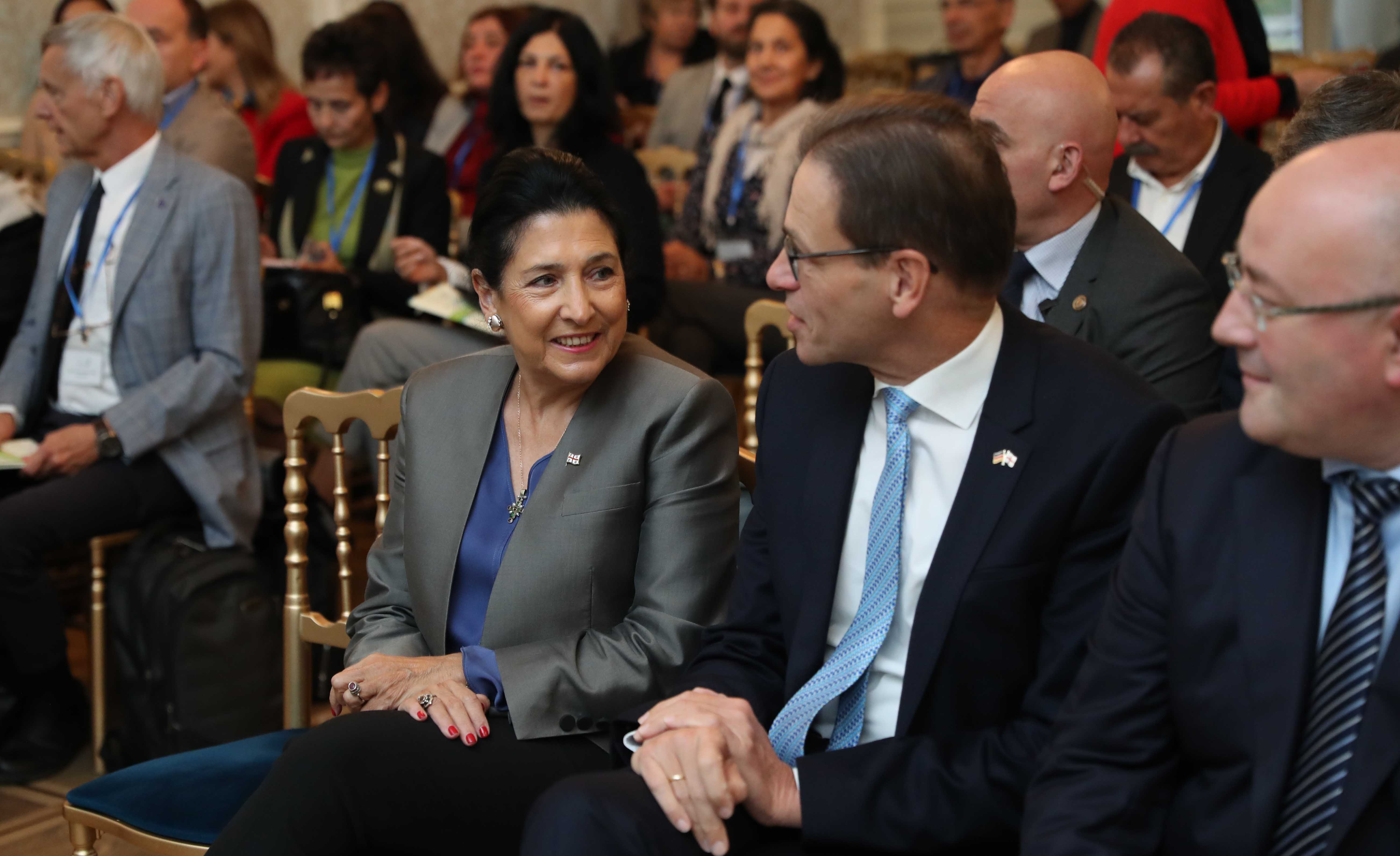 Georgian President Salome Zourabichvili talking with H.E. Hubert Knirsch, Ambassador of Germany to Georgia, at the Writers' House of Georgia.